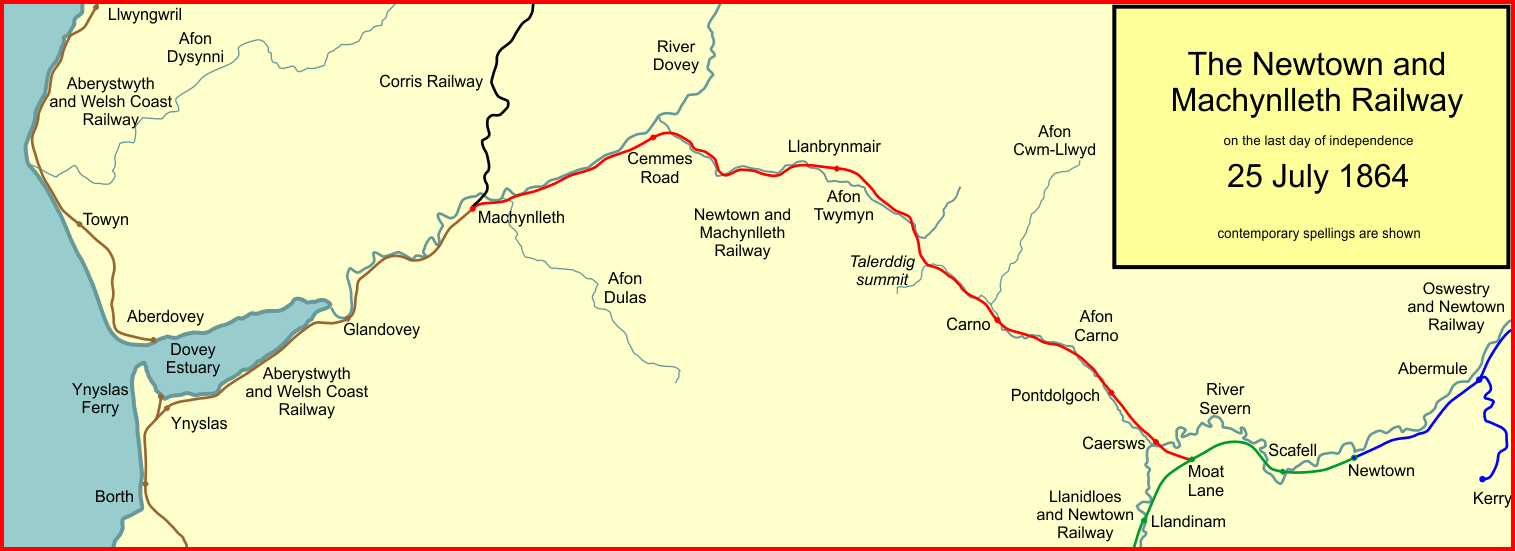 System map of the Newtown and Machynlleth Railway, Wales, in 1864